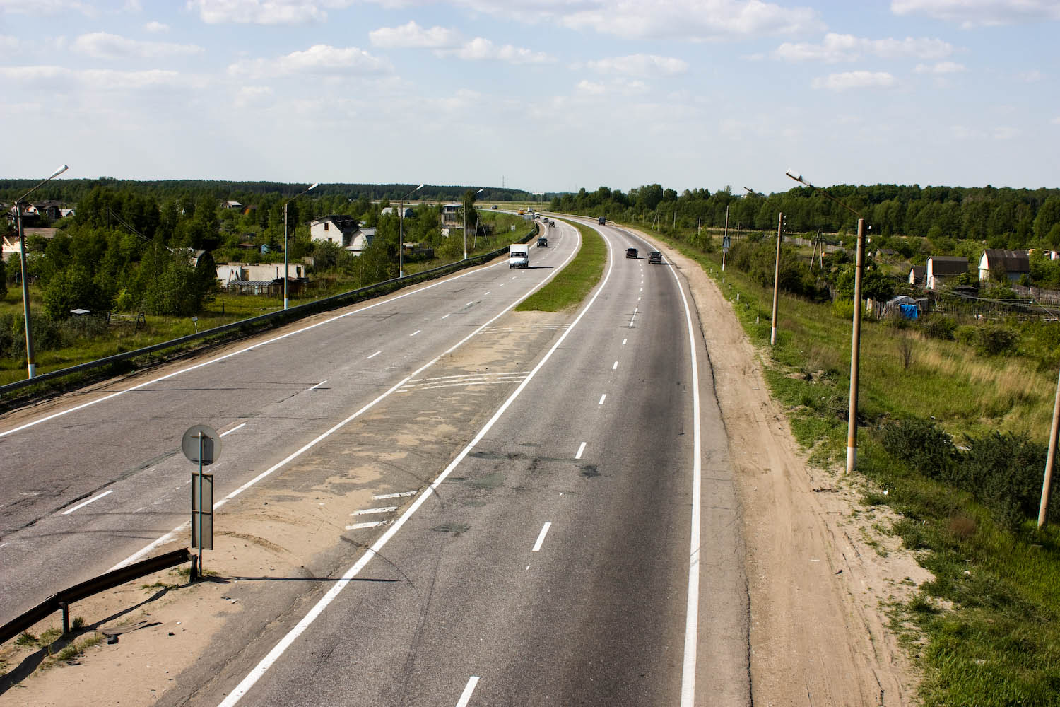 Sothern bypass of Nizhny Novgorod, M7 road.